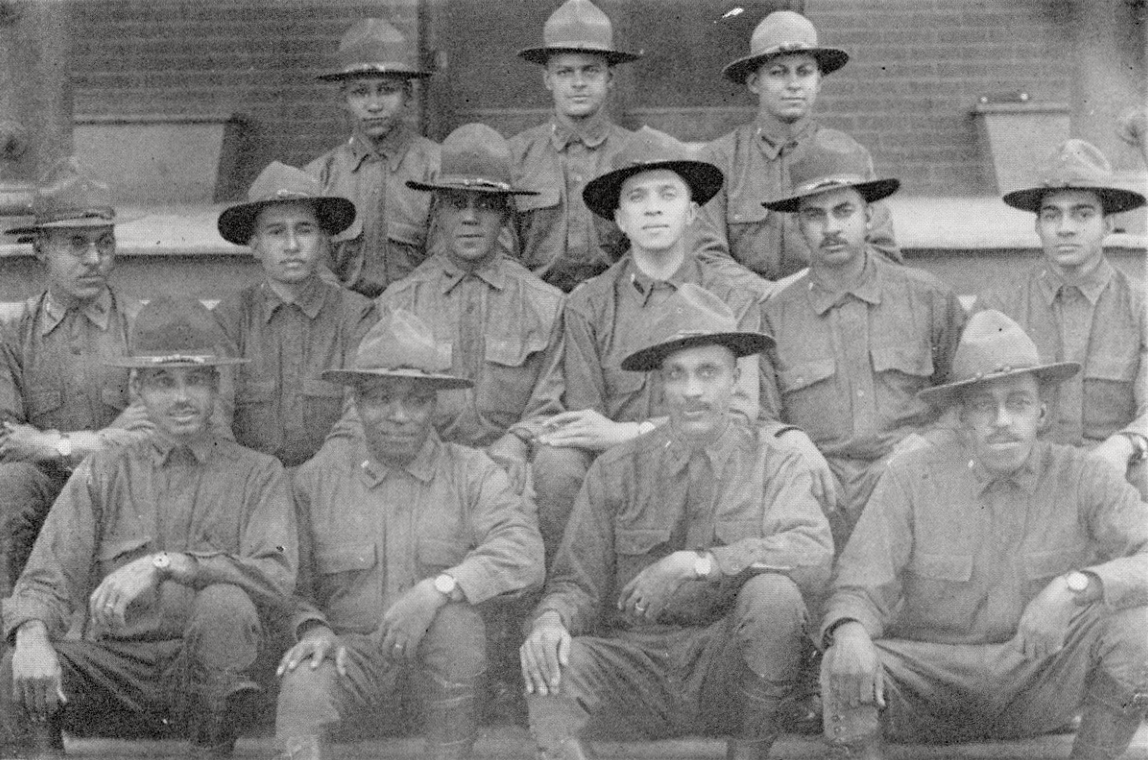 Group Picture of Charles h. Garvin when he was serving in WWI as First Lieutenant in Des Moines Camp in 1917, he is located in the end of the third row. Found in Journal of National Medical Association issue printed in the 1960s when he died and it is in the public domain. FREEDMEN'S HOSPITAL ALUMNI AT FORT DES MOINES First row: Extreme right, Dr. T. Edward Jones. Second row: Dr. Arthur L. Curtis; Fourth from left, Dr. William J. Howard; Extreme right, Dr. Hudson J. Oliver. Third row: Dr. Louis T. Wright, Dr. Jack Lee, Dr. Charles H. Garvin.